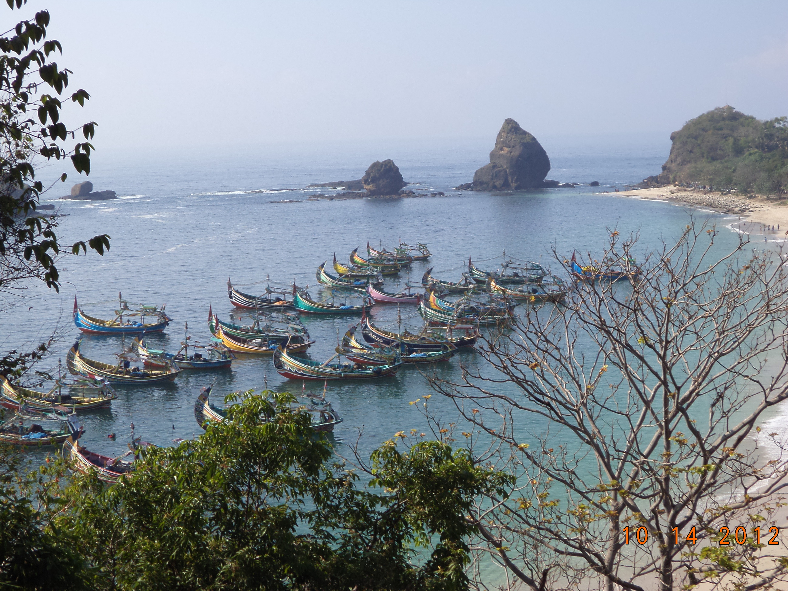 This picture are photographer Much Nesha AR